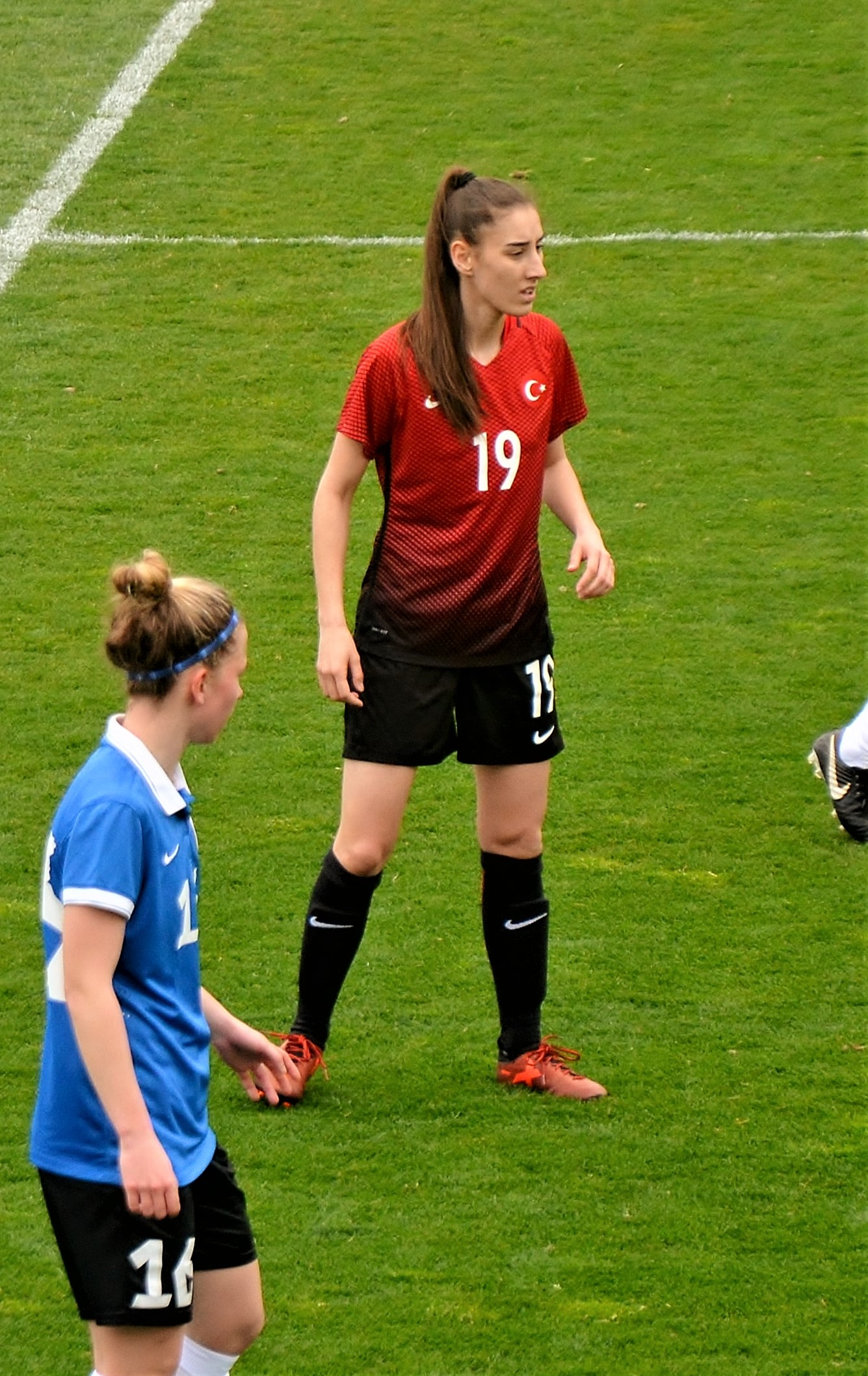 Pakize Gözde Dökel playing for Turkey women's national football team in the friendly home match against Estonia at TFF Riva Facility on 7 April 2018.